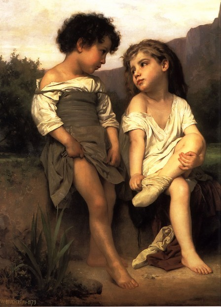 Les petites baigneuses aka Au bord du ruisseau""